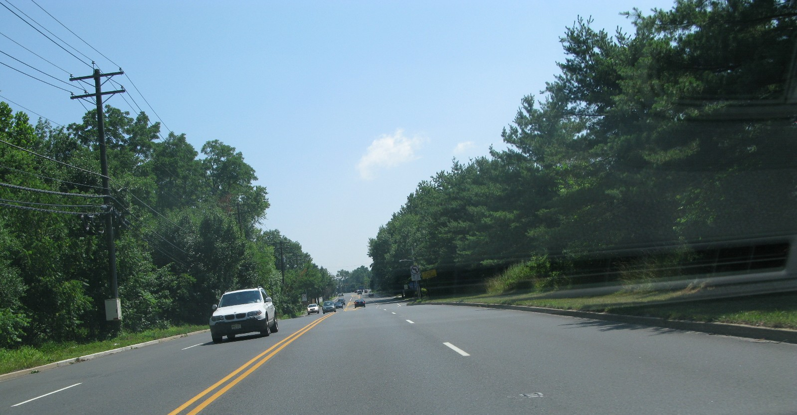 County Route 544 (Evesham Road) in Marlton, New Jersey, heading east